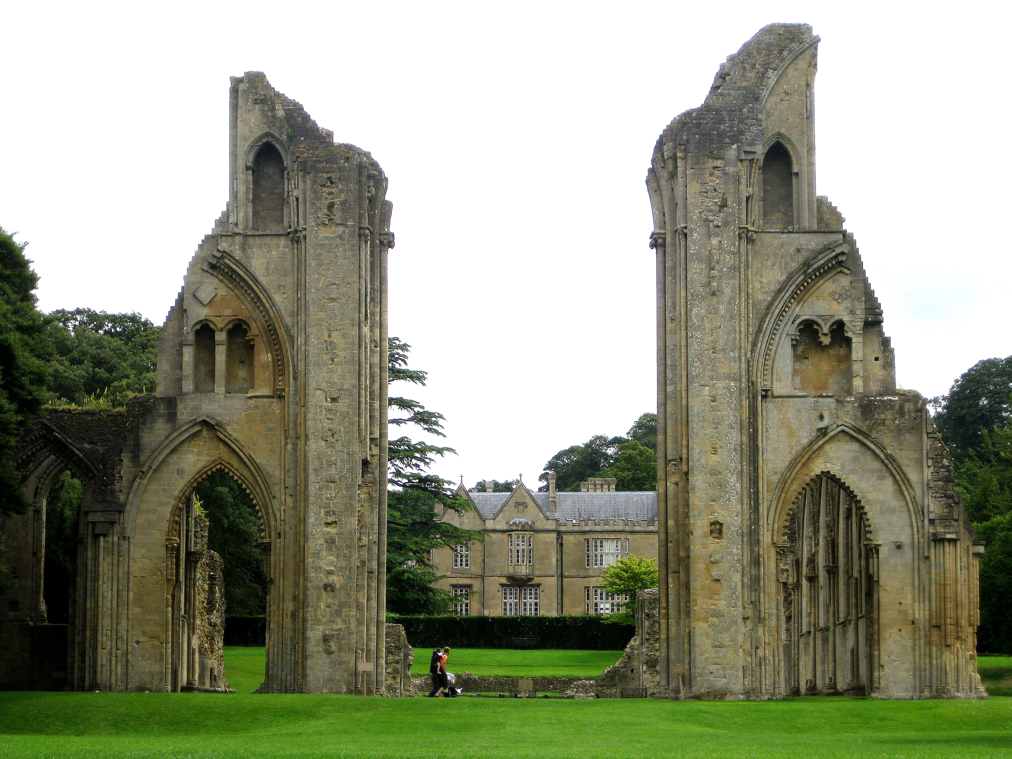 View east up the nave at Glastonbury Abbey, Glastonbury, Somerset, UK